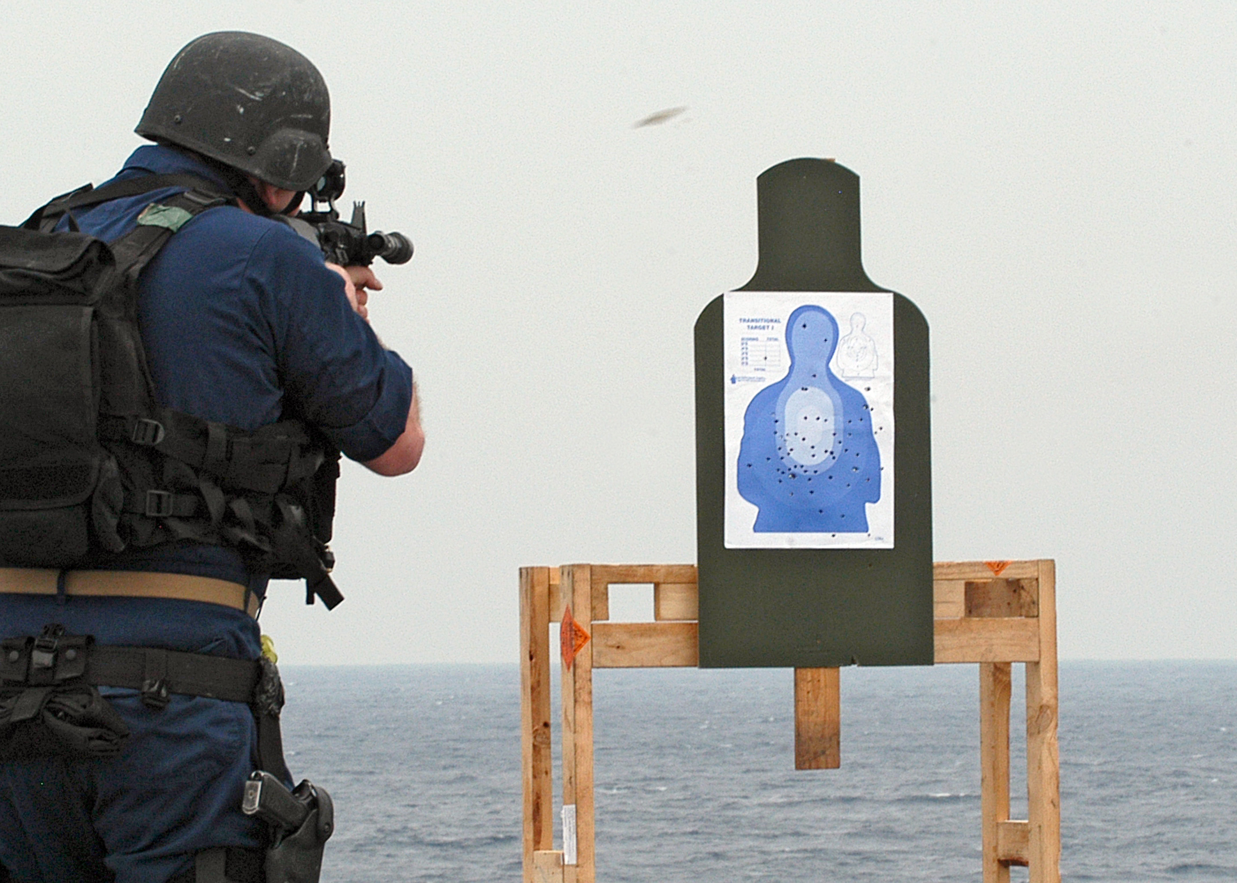 PACIFIC OCEAN (Feb. 4, 2008) A member of the visit, board, search and seizure (VBSS) security force aboard the amphibious dock landing ship USS Harpers Ferry (LSD 49) fires his weapon on the firing range during a target practice drill. The VBSS team is training on various weapons and boarding procedures to enhance their proficiency skills when boarding and searching vessels. U.S. Navy photo by Mass Communication Specialist 2nd Class Joshua J. Wahl (Released)